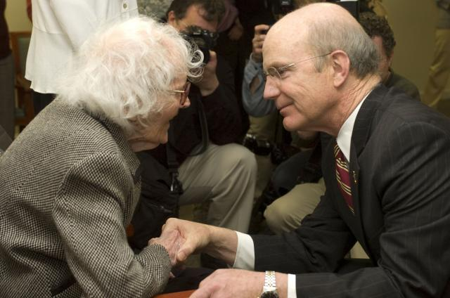 Gertrude Noone, the oldest surviving World War II veteran at 110 years of age, is greeted by Army Secretary Pete Geren, during a ceremony in honor of Women's History Month and the Year of the Noncommissioned Officer, March 31, 2009, in Milford, Conn. Noone served as a sergeant first class in the Women's Auxiliary Corps during World War II.